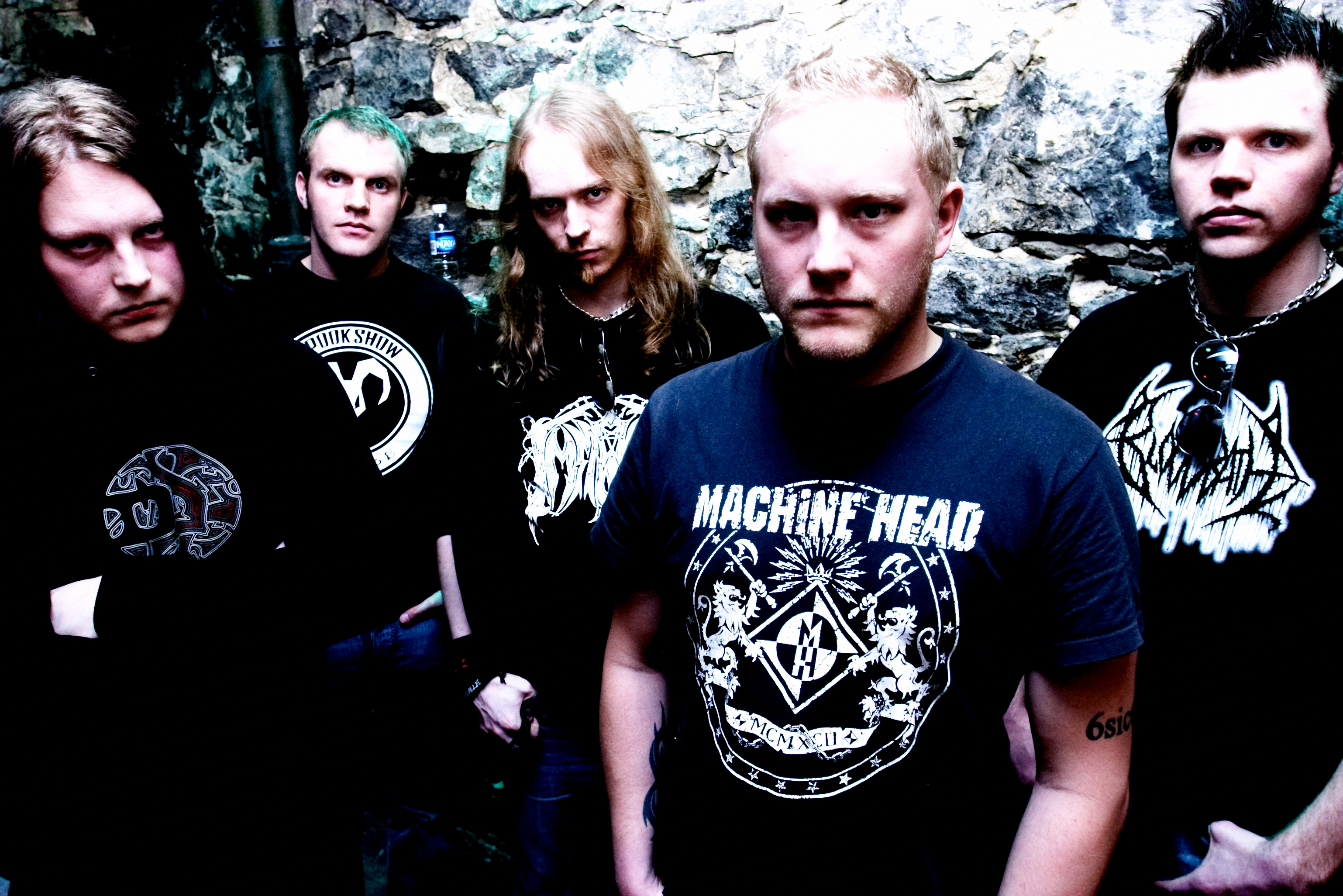 Katatonia in 2004: (L-R) Jonas Renkse, Fredrik Norrman, Anders Nystrom, Daniel Liljekvist, and Mattias Norrman